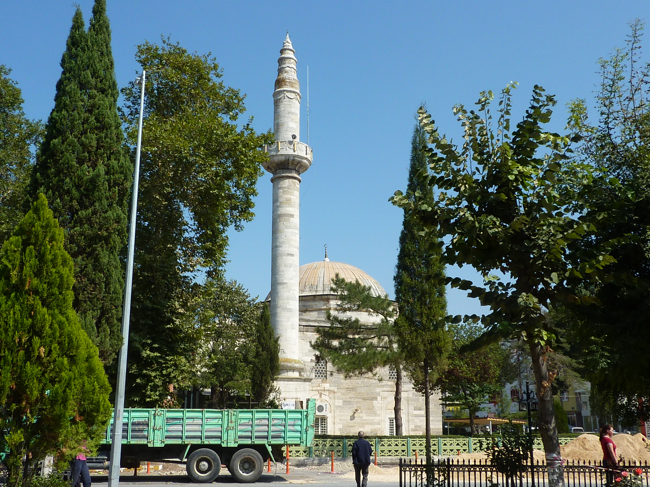 Central square area in Saray City, Tekirdağ Province, Turkey. There is a mosque there, some Byzantine relics, and a monument to Ataturk who visited the town near the end of his life for military manneuvers.